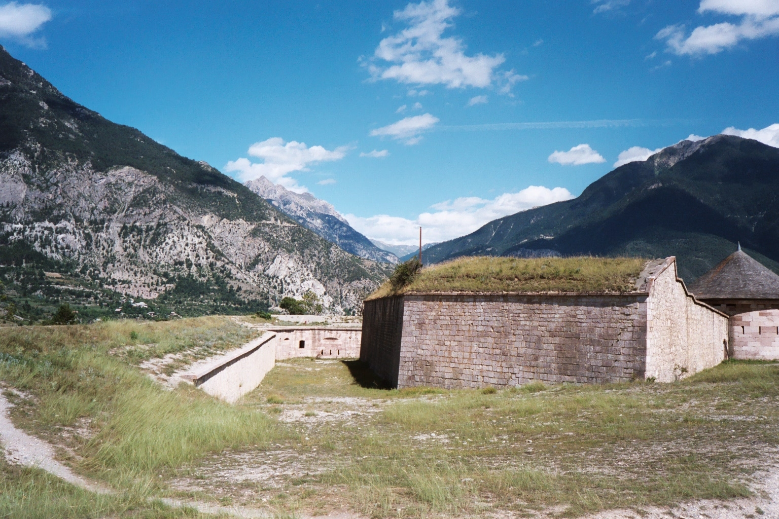 Mont-Dauphin, place fortified by Vauban